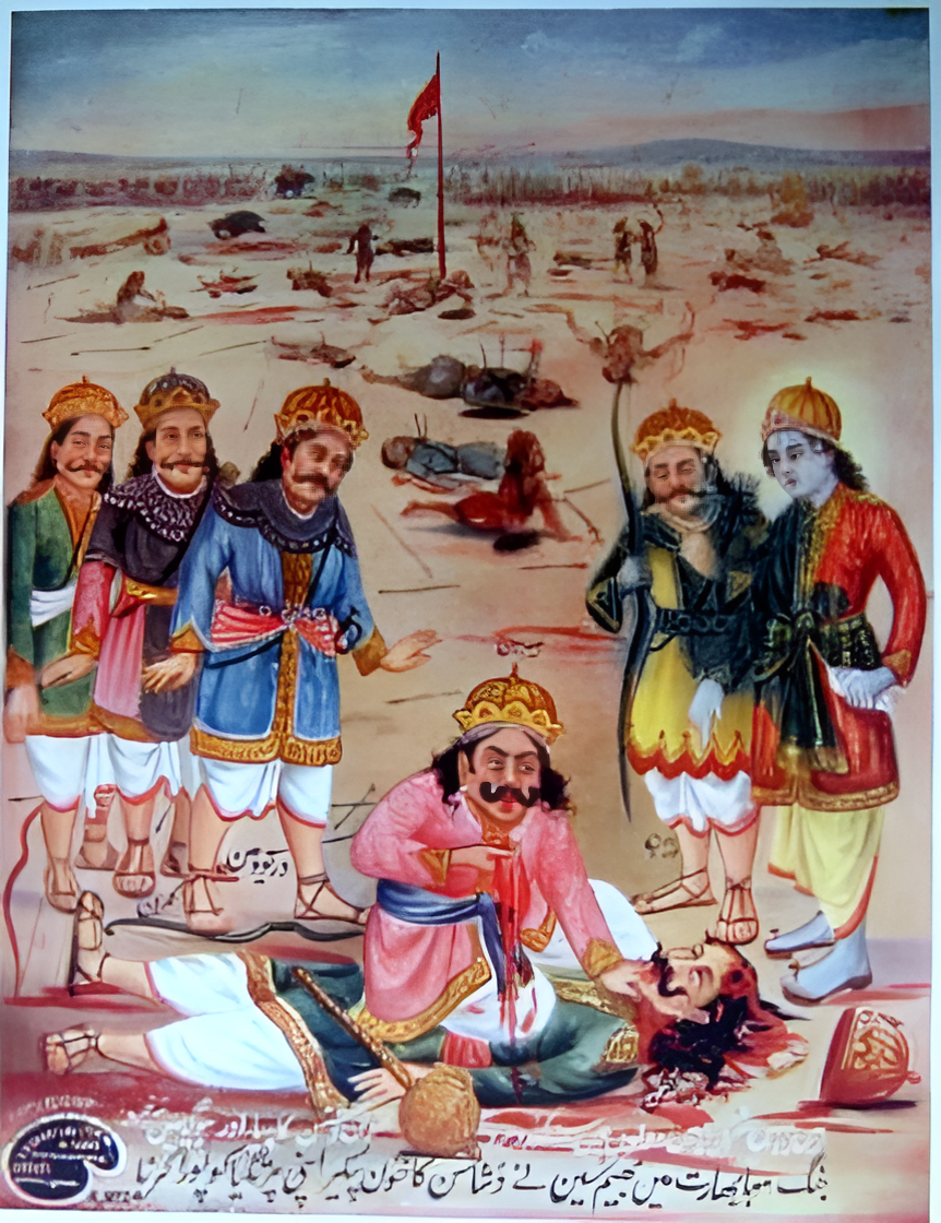 "Bhimsen fulfilling his promise regarding Duhshasan in the Mahabharata field," a print by the Dharmik Picture House, Lahore, 1930s